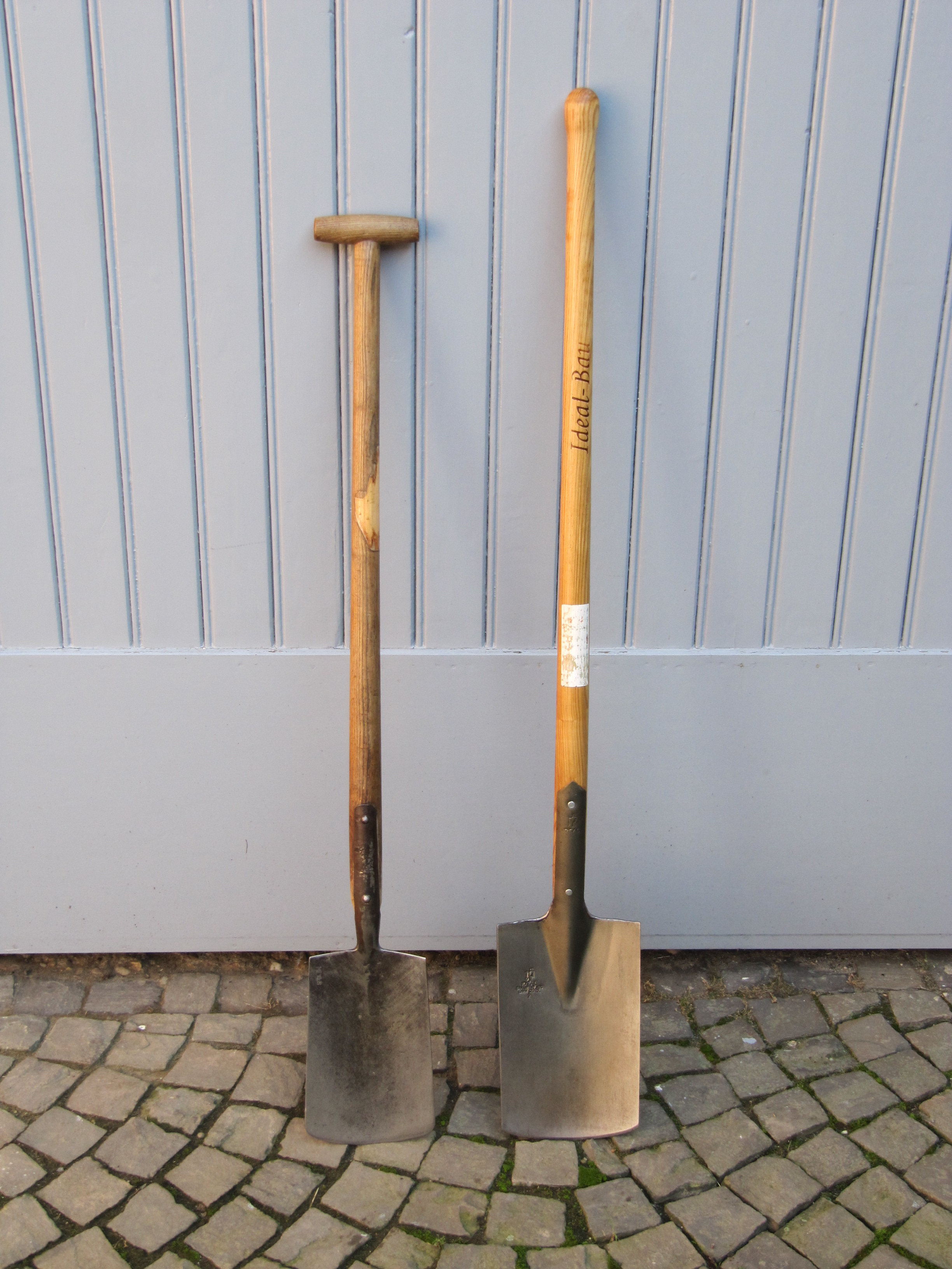 Two spades: the left one for digging in the garden, the right one for underground work